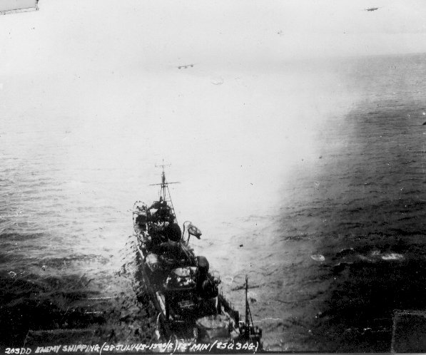 Imperial Japanese Navy destroyer Ariake under attack of B-25 Mitchells from 3rd Attack Group 5th Air Force USAAF near Cape Gloucester, New Britain, July 28, 1943.